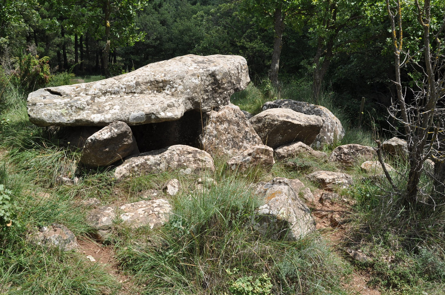 A megalithic tomb (dolmen) just below the summit of the Puig Rodó (1056 m, Moià, Comarca de Bages, Catalonia, Spain).